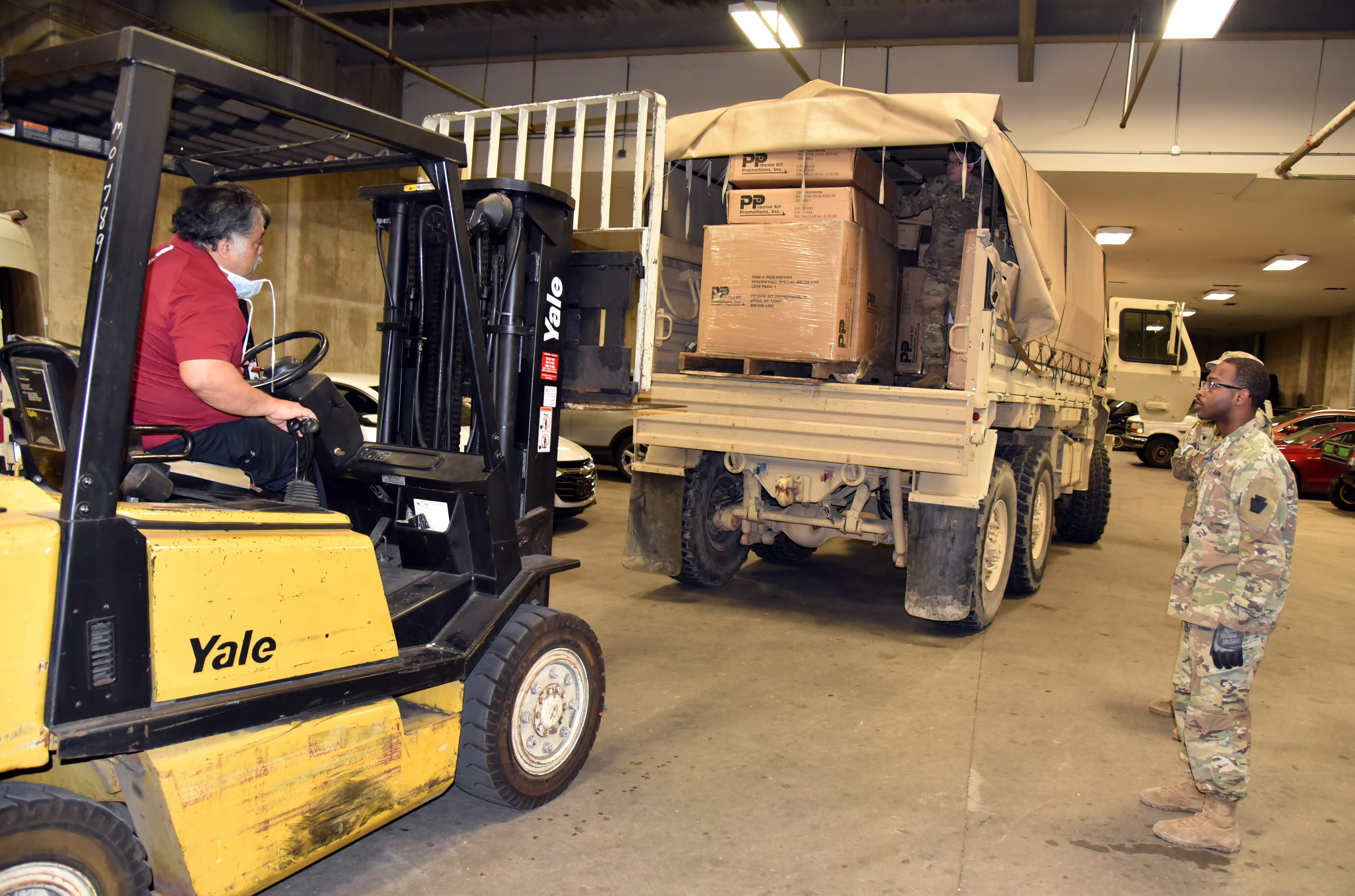 Pennsylvania National Guard members from 1/104th Cavalry -- part of Pennsylvania Task Force South -- unload a Light Medium Tactical Vehicle, or LMTV, filled with 125 special needs cots at the Federal Emergency Management Agency field hospital located at Temple University's Liacourus Center in north Philadelphia, Pa., on Friday, April 3. The facility will be used as a potential surge hospital for patient care in the event that city hospitals are overwhelmed treating patients amid the COVID-19 outbreak.